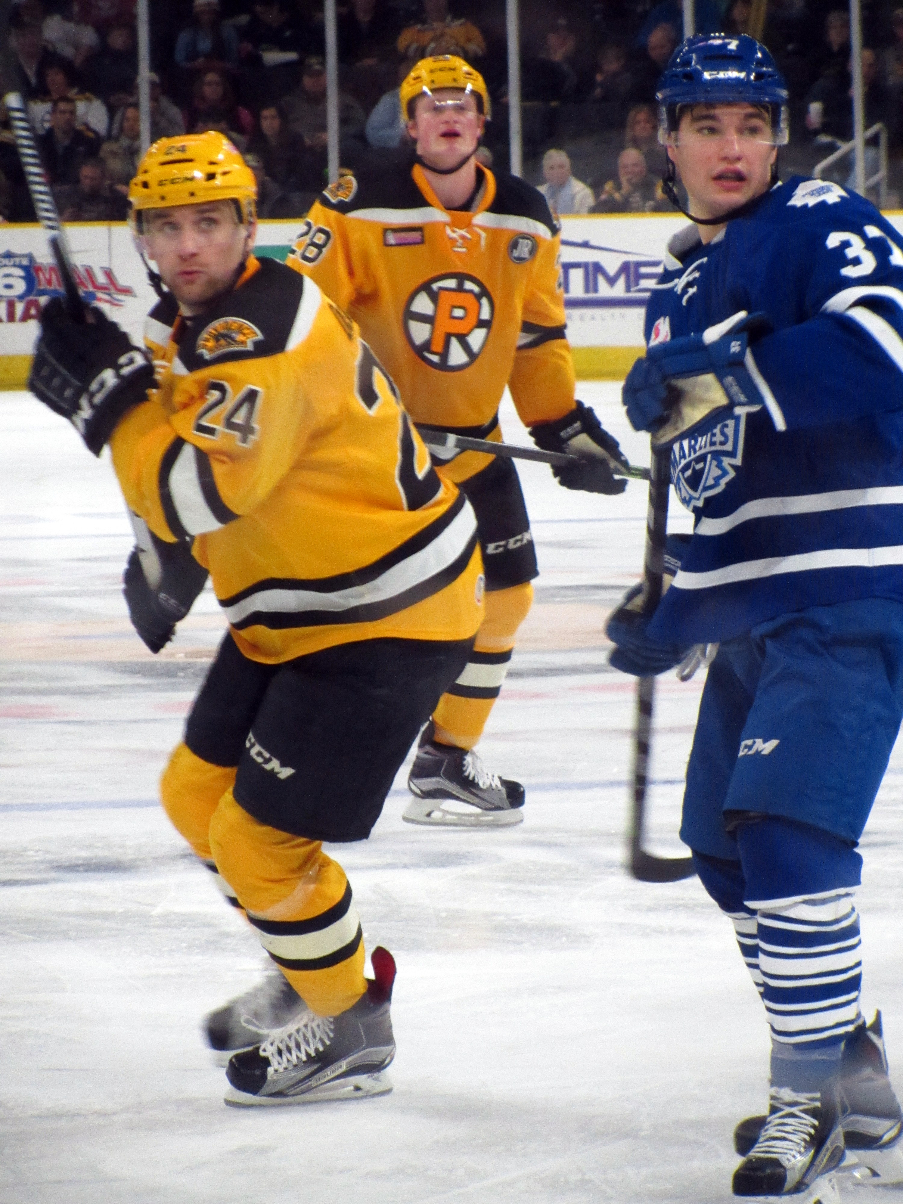 Colin Smith of the Toronto Marlies and Brandon De Fazio of the Providence Bruins